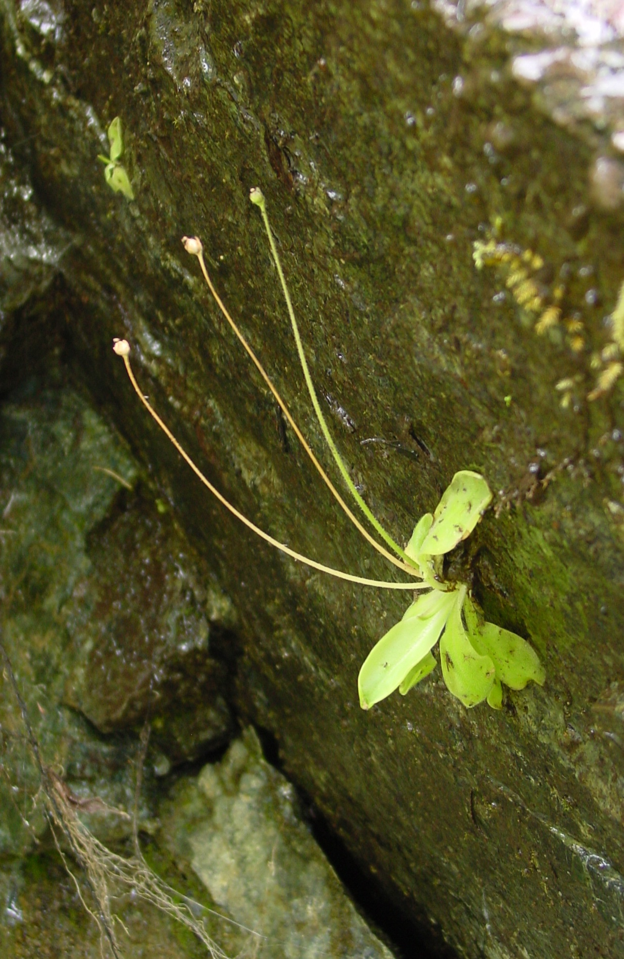 Description: Pinguicula macroceras ssp. nortensis in Hiouchi, California, USA Photograph by: Noah Elhardt